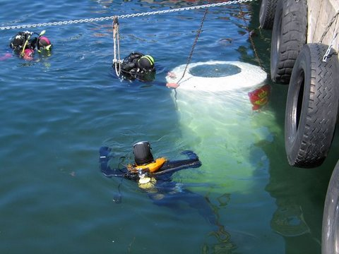 The post office being launched